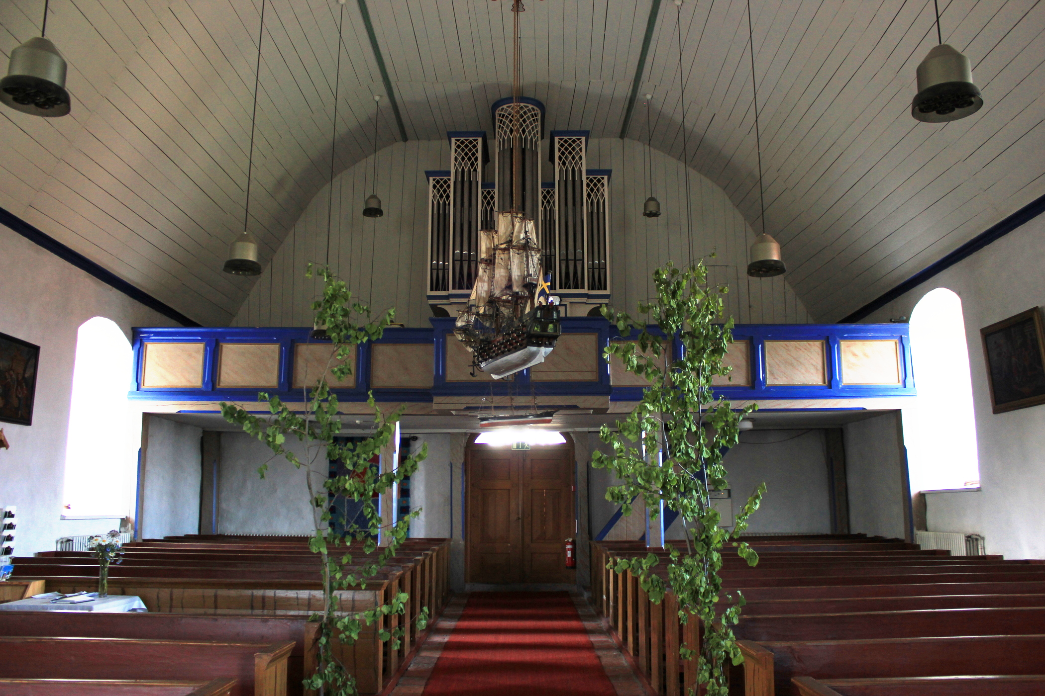 Church on Kökar island, Åland.